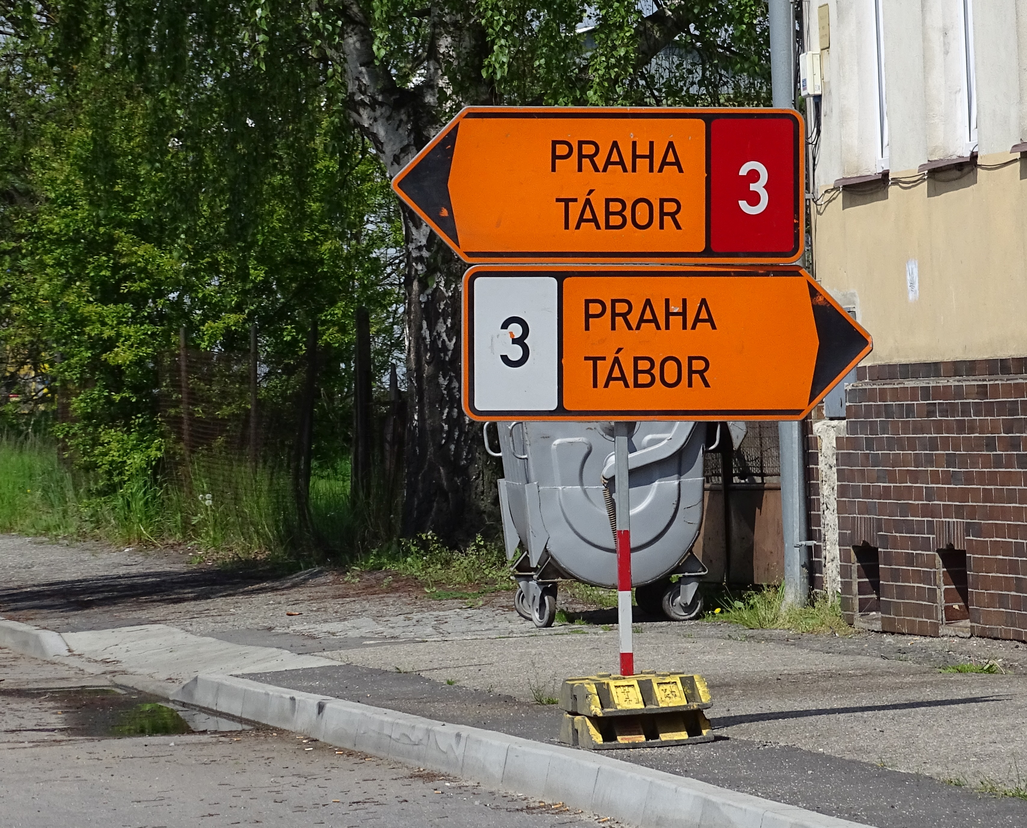 Veselí nad Lužnicí II, Tábor District, South Bohemian Region, Czechia, Třída Čs. armády, directional road signs.